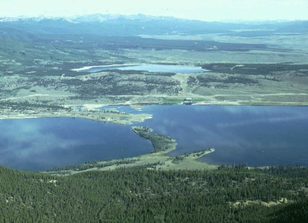 Twin Lakes, Colorado. Image from US Bureau of Reclamation.